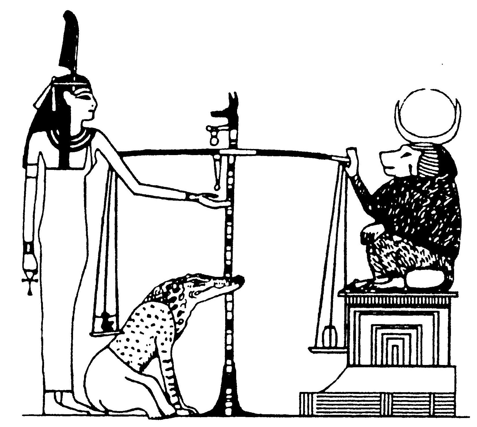 Ma_Tho_Am.jpg